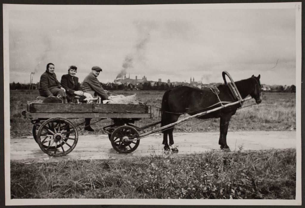 Director of State Archives fetching vegetables from a garden in Lilleküla